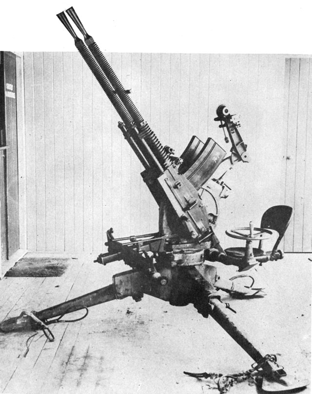 WWII Japanese Twin 13.2mm AA Gun, IJN Type 93 13mm Machine Gun or IJA Type Ho 13mm AA Machine Cannon. Source：[1]（Technical Manual TM-E 30-480: Handbook on Japanese Military Forces）